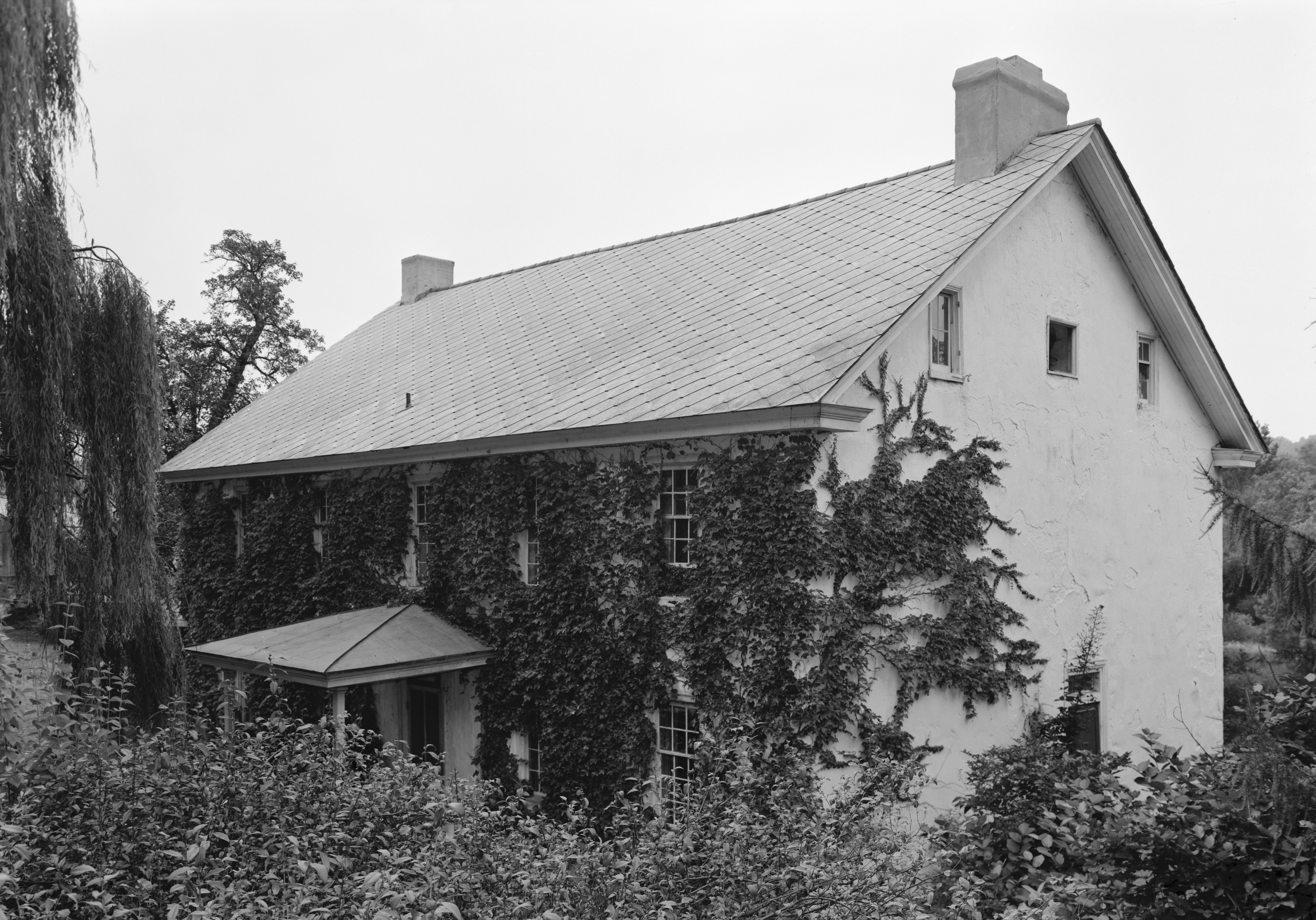 Job Harvey House in Charlestown Village Historic District on the NRHP since May 16, 1978. Located Southwest of Phoenixville on Charlestown Road, Charlestown Township, Chester County, Pennsylvania. Log or plank house built 1725 (and later destroyed) addition 1740. Harvey House is likely the oldest in the village.